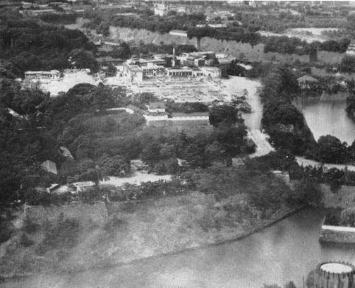 Aerial view of the Tokyo Imperial Palace, Japan, circa in late August 1945. The photo was taken by a U.S. Navy Vought OS2U Kingfisher reconnaissance plane from the heavy cruiser USS Quincy (CA-71).